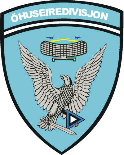 Estonian Air Surveillance Division badge